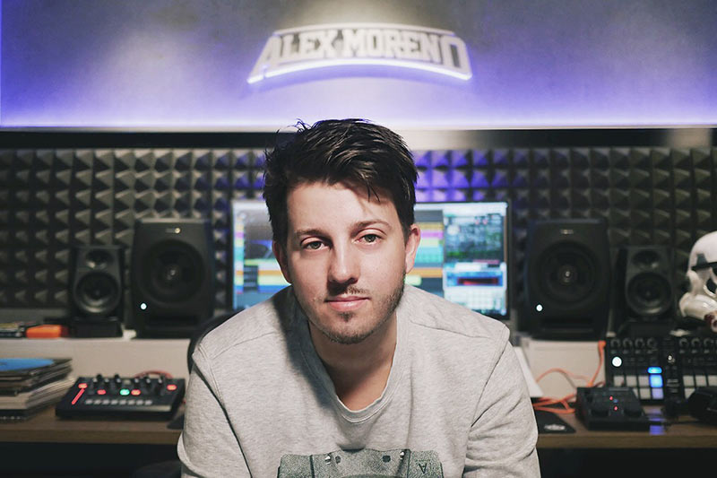 Alex Moreno, 2017